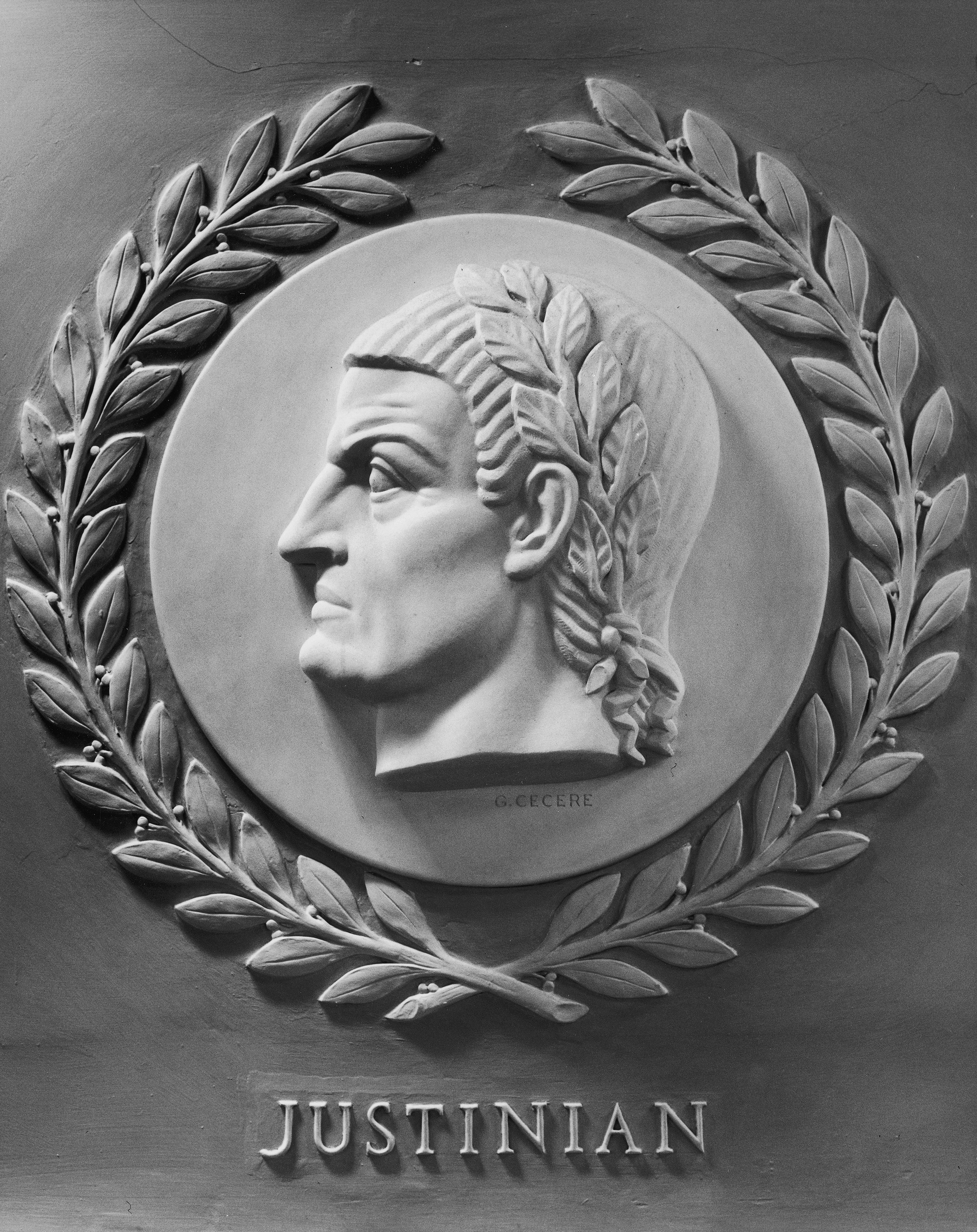 Byzantine emperor; appointed Tribonian to compile and consolidate the Roman legal code into the Justinian Code, which he supplemented with a collection of rulings and precedents. Gaetano Cecere Marble, 28" dia. 1950 House of Representatives Chamber This official Architect of the Capitol photograph is being made available for educational, scholarly, news or personal purposes (not advertising or any other commercial use). When any of these images is used the photographic credit line should read “Architect of the Capitol.” These images may not be used in any way that would imply endorsement by the Architect of the Capitol or the United States Congress of a product, service or point of view. For more information visit